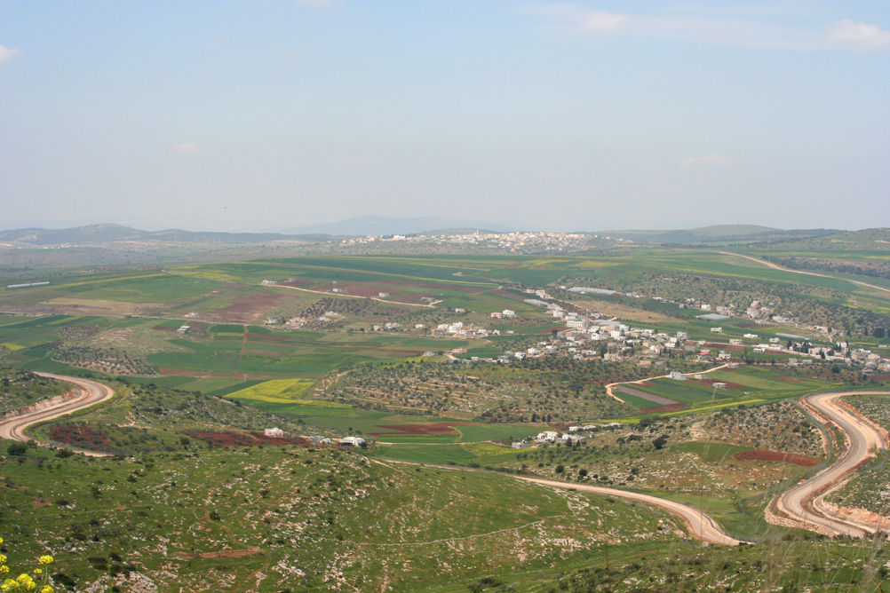 Separation Barrier between Northern Samaria (Palestinian) and the Gilboa (Israeli) Photo by beivushtang